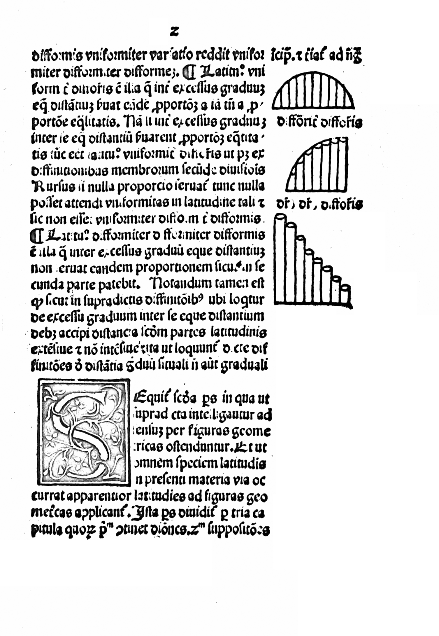 A page from Tractatus de latitudinibus formarum (1505) edited by Biagio Pelacani da Parma (Blasius of Parma) in Venice, an abridgement of the 14th-century work Tractatus de figuratione potentiarum et mensurarum by Nicholas Oresme (1323-1382). The work was first printed in 1482, and again in 1486, 1505 and 1515. As reprints of this book were still available in the 17th century, it is possible that this work directly influenced René Descartes and the development of the "Cartesian" coordinate system.